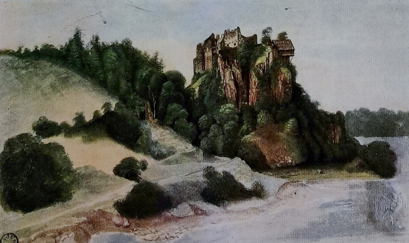 Watercolor Alpin Castel)